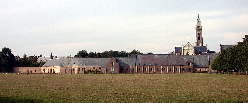 Tongerlo Abbey.